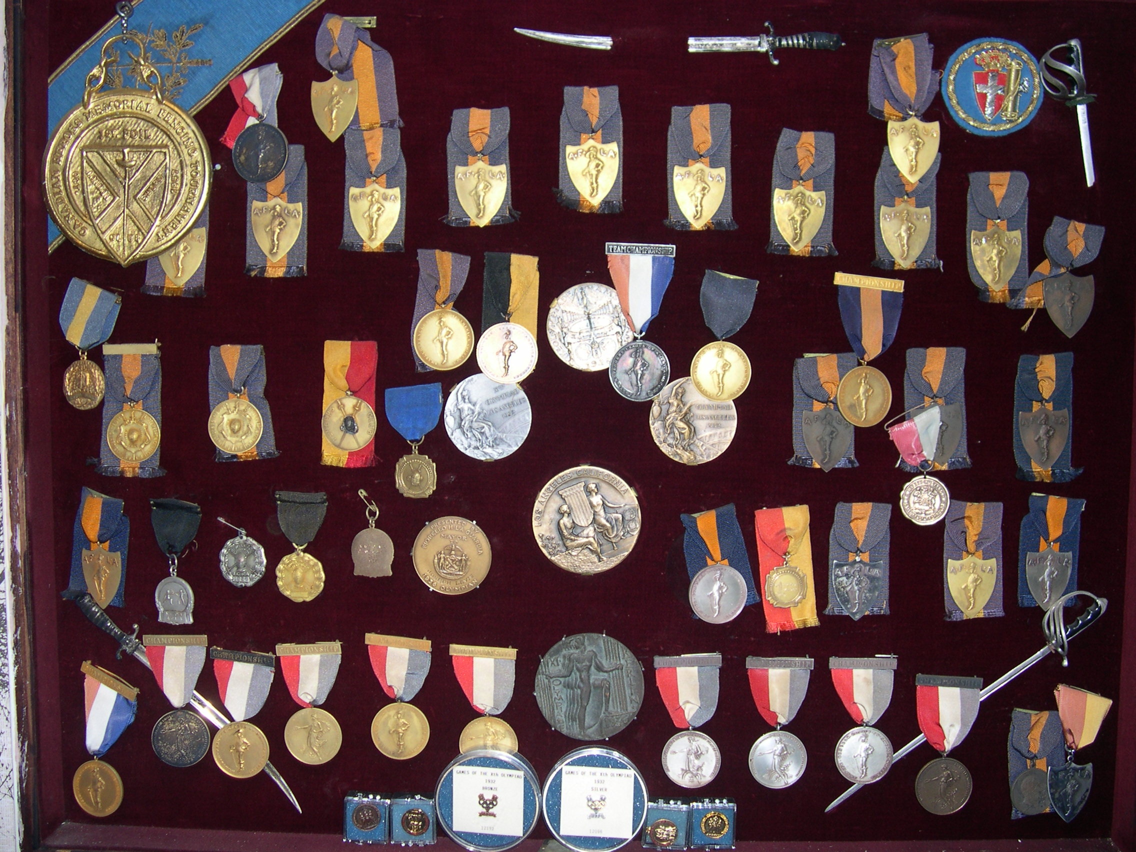 Joseph Levis Medal Collection showing 1932 Olympic Silver and Bronze medals at center of display